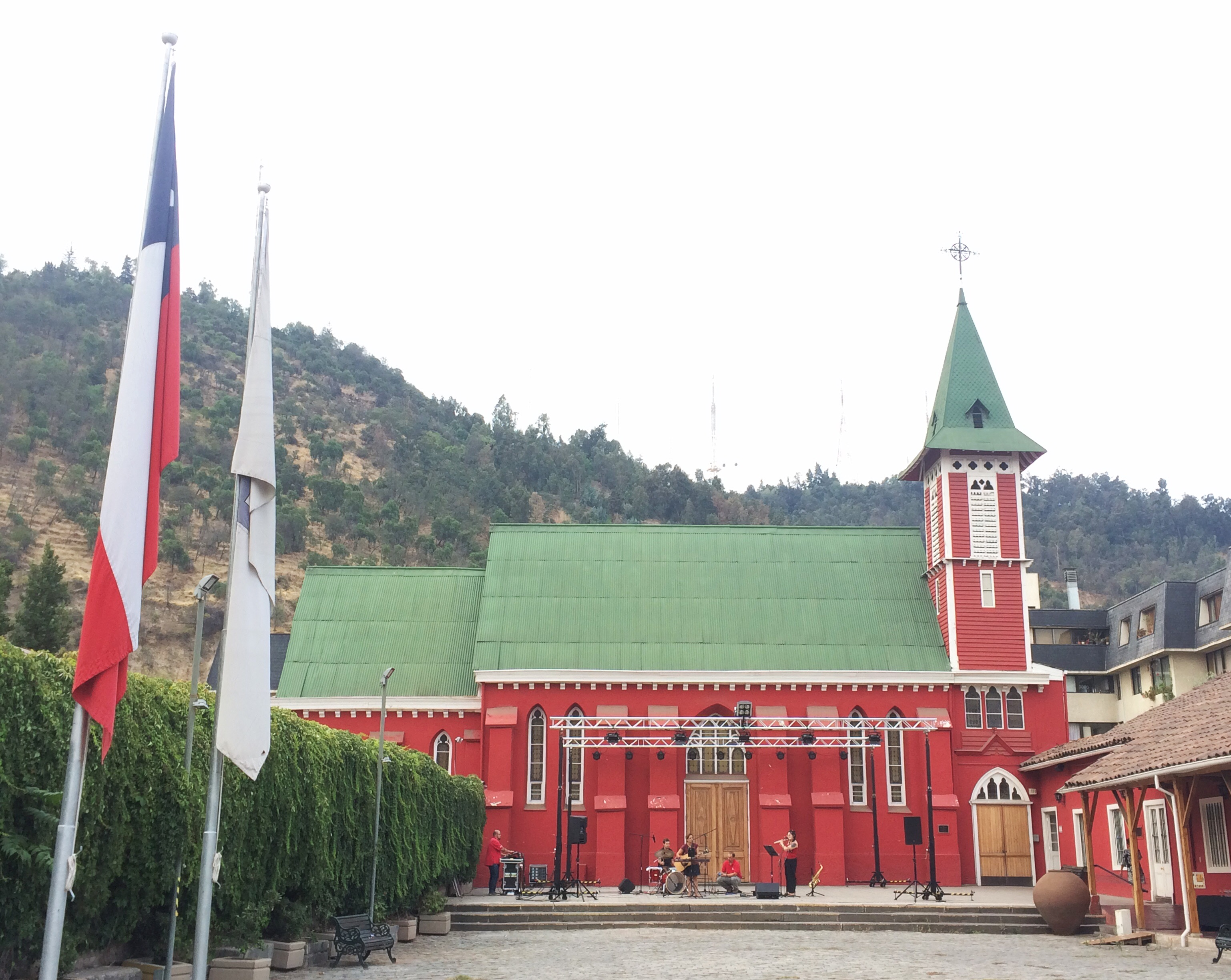 Church and esplanade